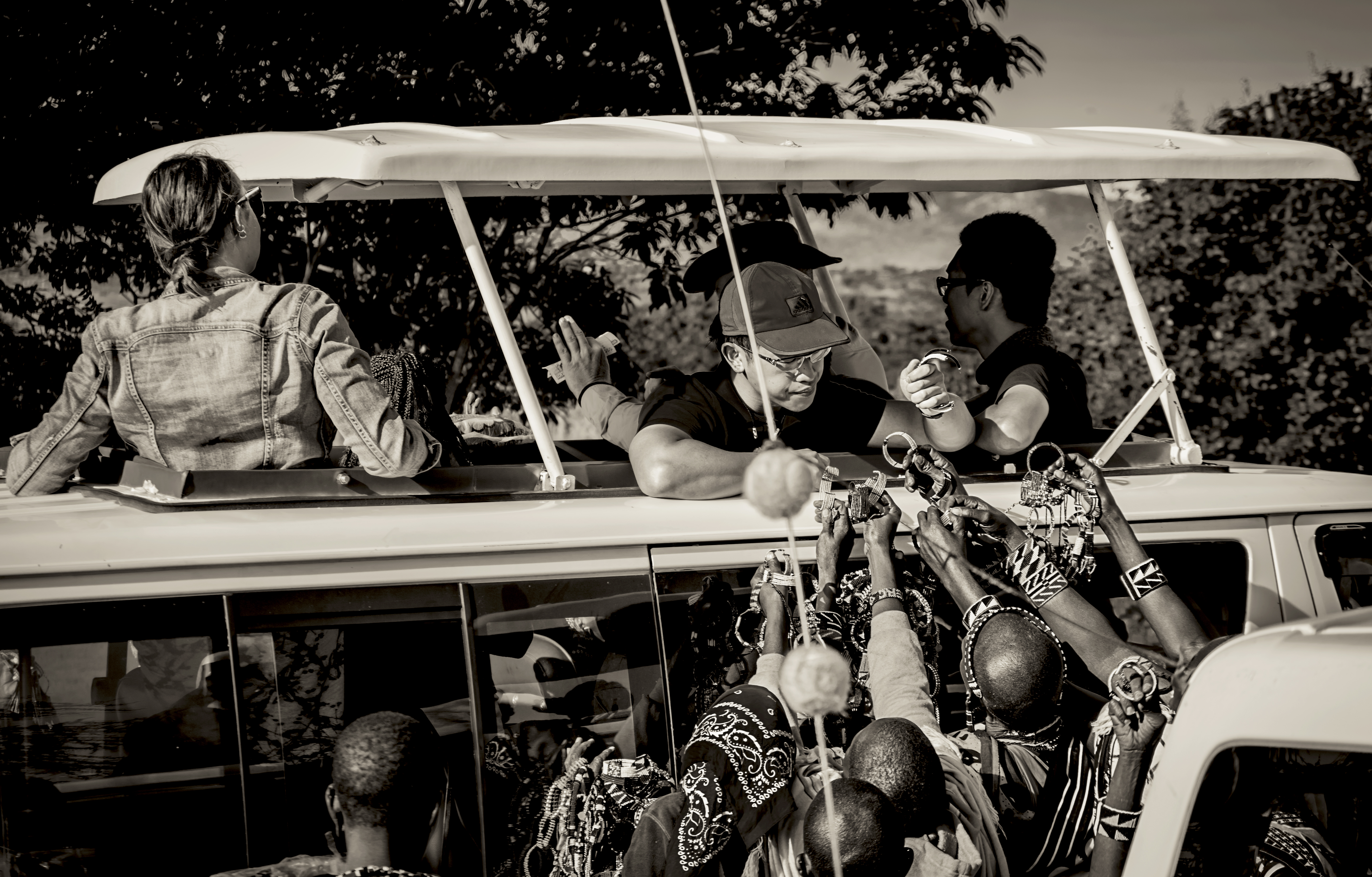 These are Maasai Mara locals selling hand crafted ornament to tourists visiting Maasai Mara National Park. This is an image of "African people at work" from Kenya